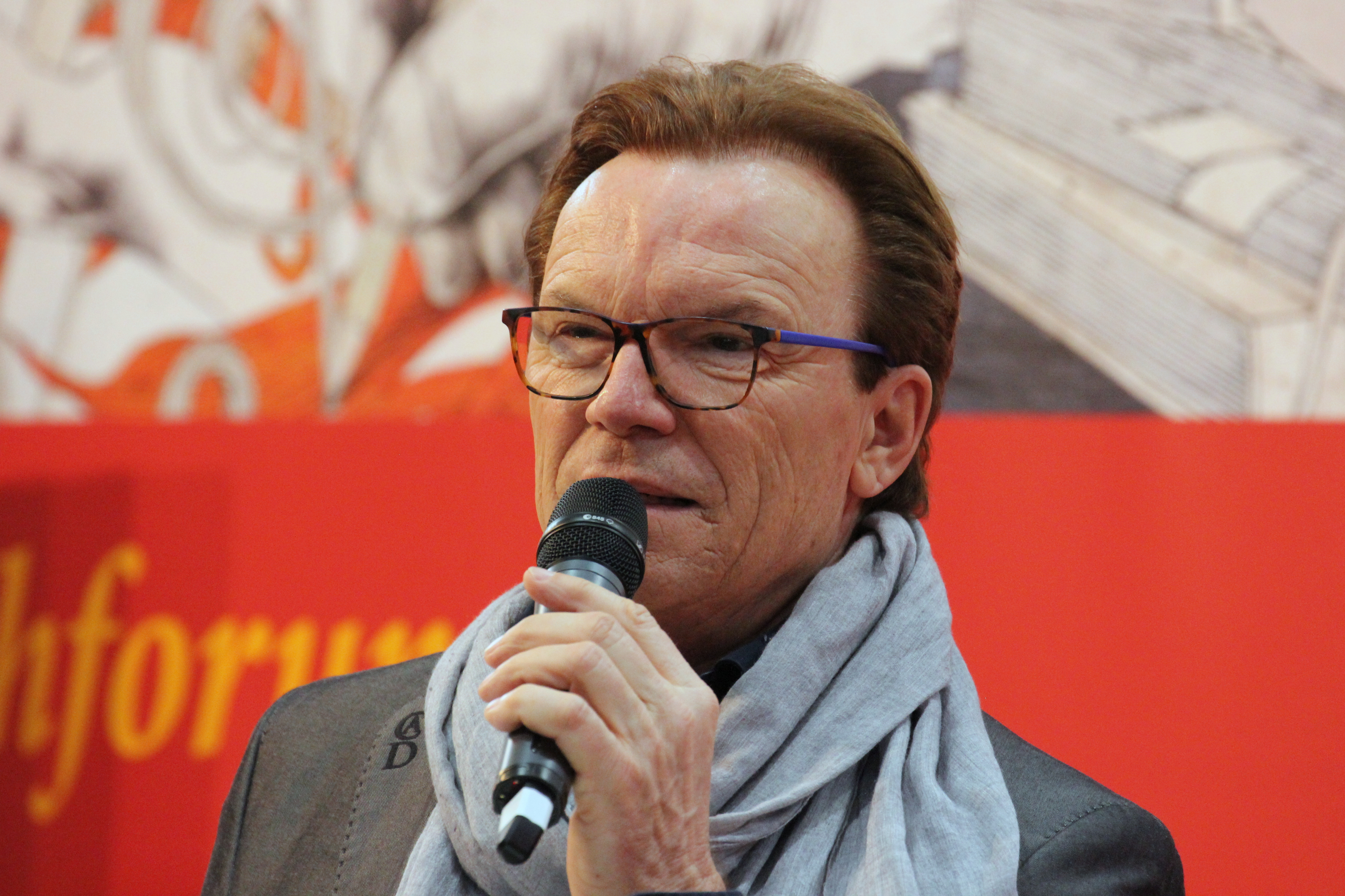 Wolfgang Lippert at Leipzig Book Fair 2016